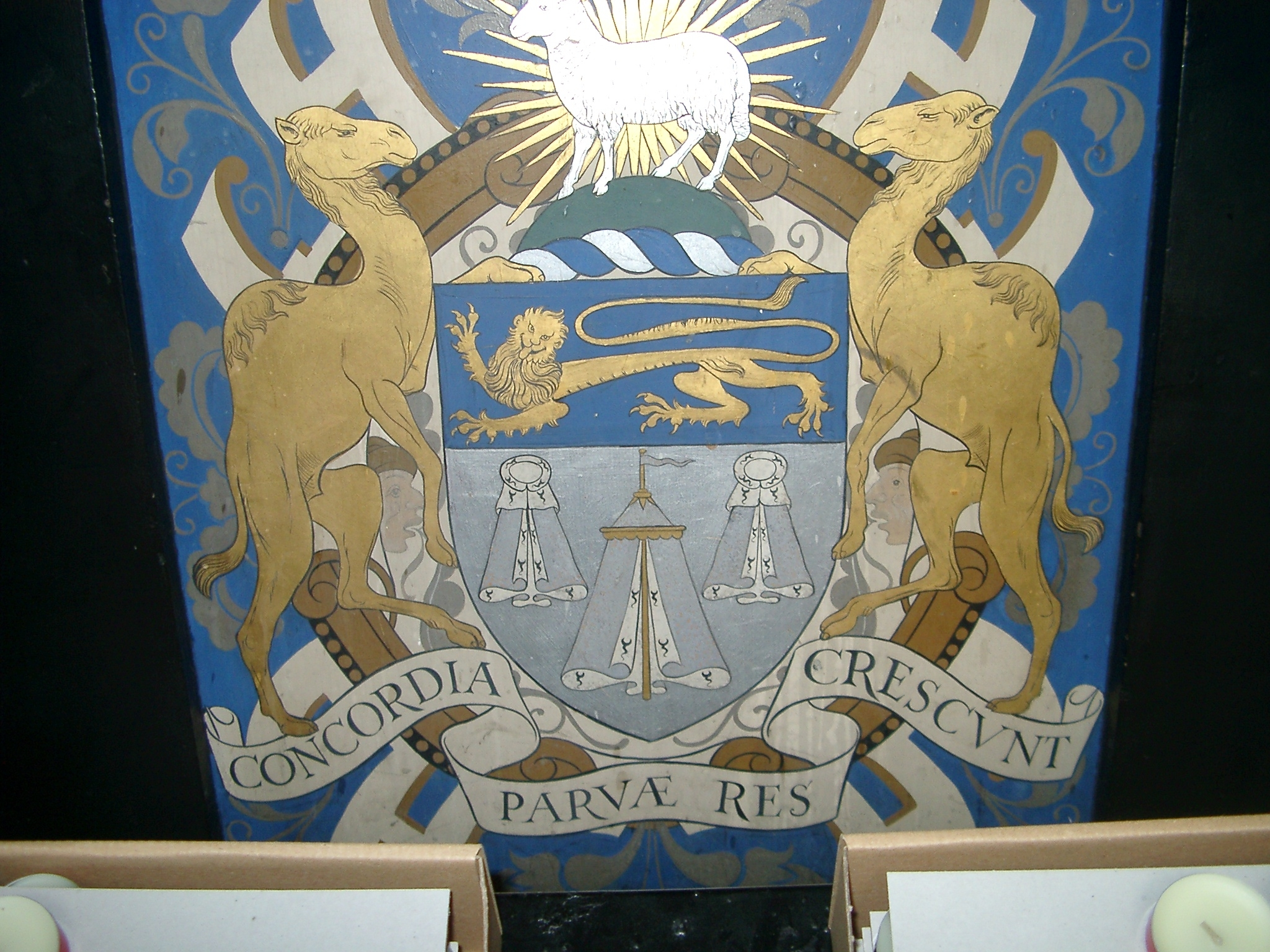 Arms of the Worshipful Company of Merchant Taylors. "Pub sign" (sic) for sale in Greenwich market, London. Latin motto: "With harmony small things grow". Apparently "removed" from monument to Lancelot Andrewes (1555 – 1626) in Southwark Cathedral, see